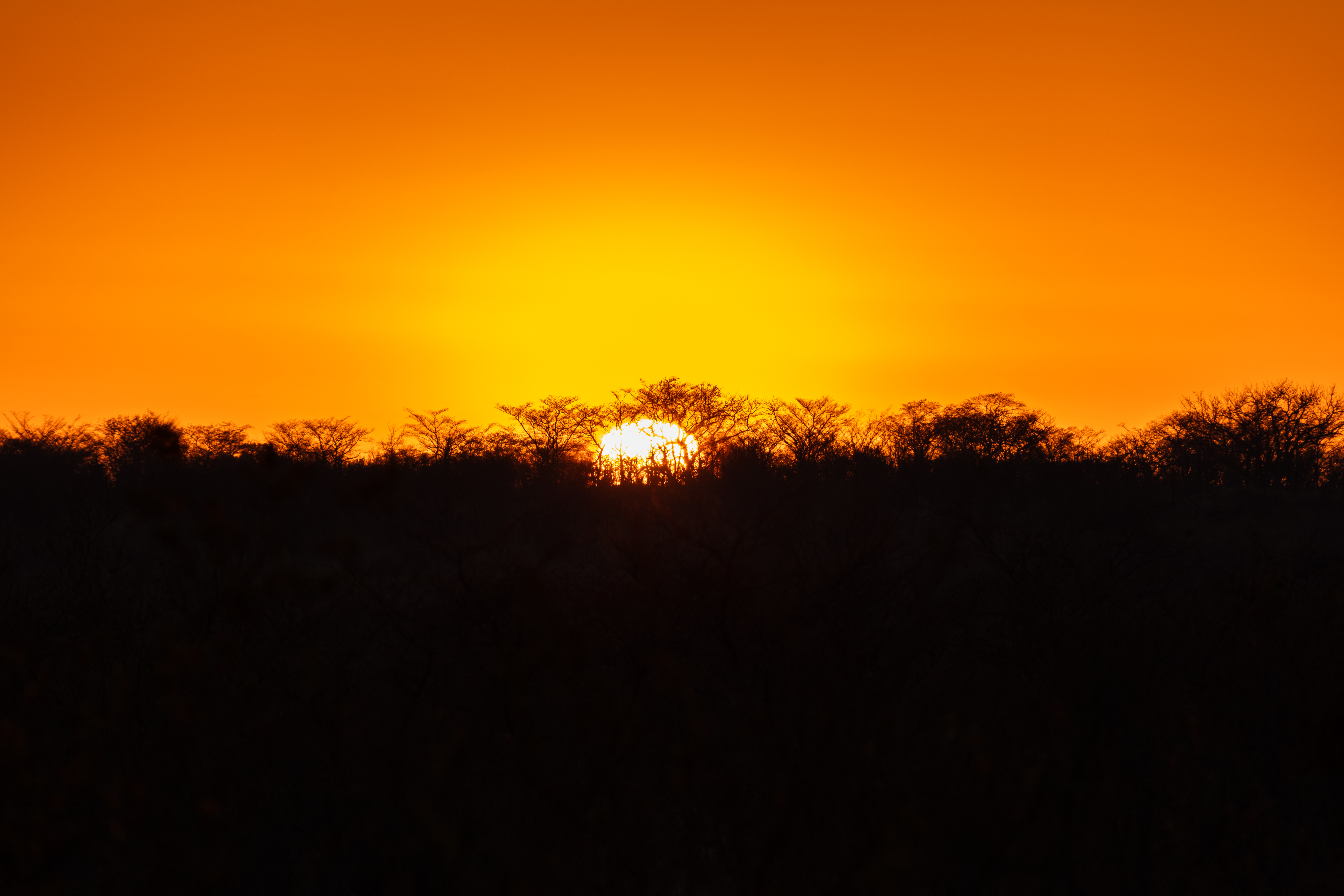 Sunrise, Kruger National Park, South Africa